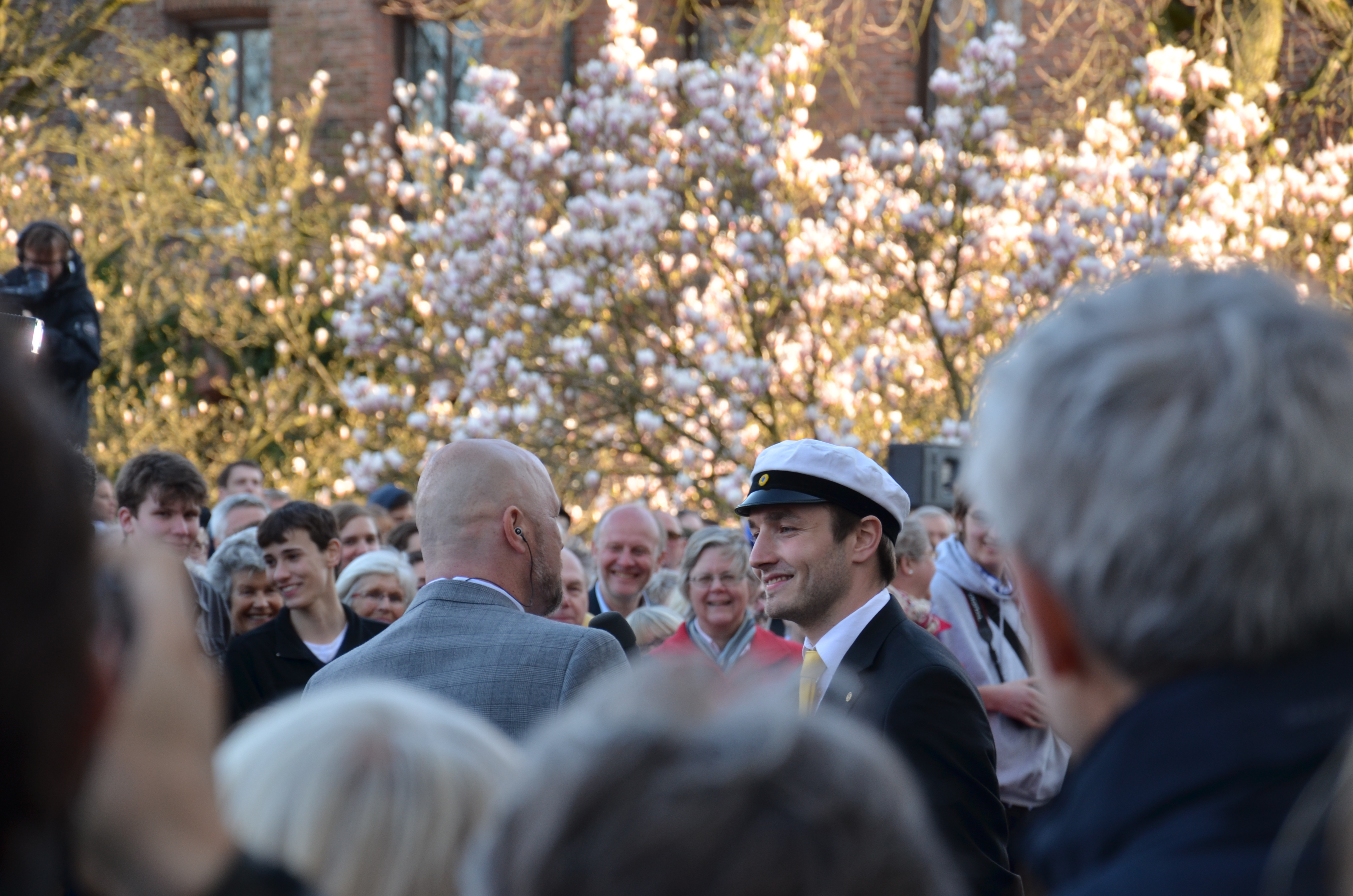 Interview with a member of Lunds studentsångförening in real-time television programme "Lund studentsångare hälsar våren" in TV 4, Sweden, Maj 1, 2012